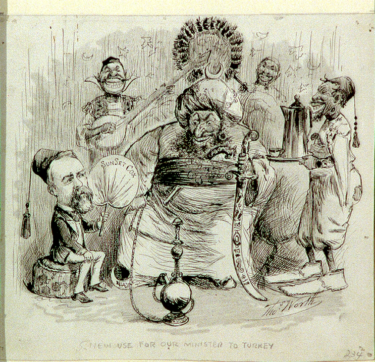 TITLE New use for our minister to Turkey MEDIUM 1 drawing : pen and ink. NOTES "Sunset Cox" on fan. Congressman Samuel Cox fanning Turkish official, possibly a Sultan, who is surrounded by servants.